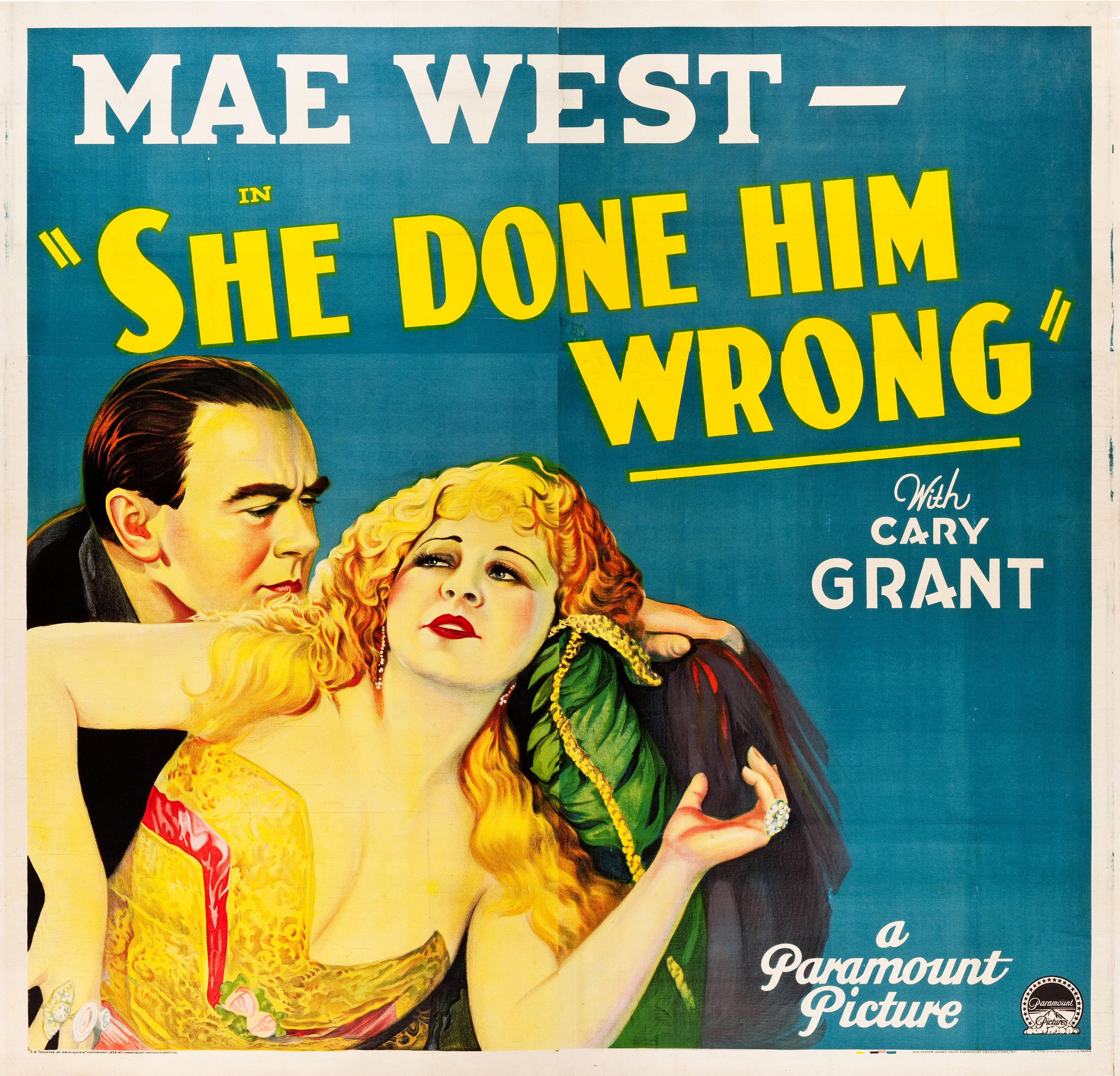 Theatrical poster for the release of the 1933 film She Done Him Wrong. Six sheet (81" × 81").